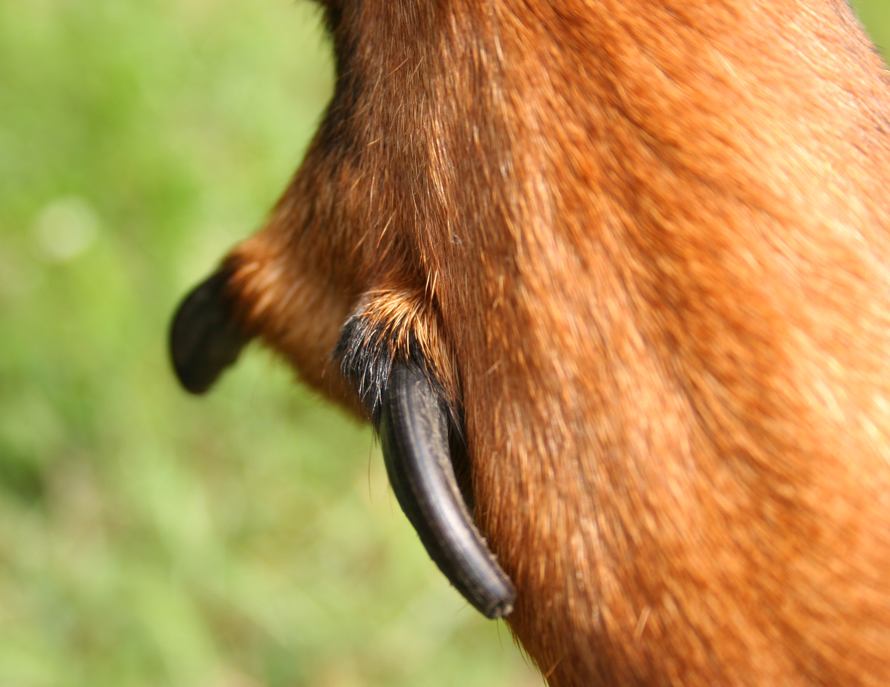 Dewclaw / Beauceron during dog's show in Racibórz, Poland